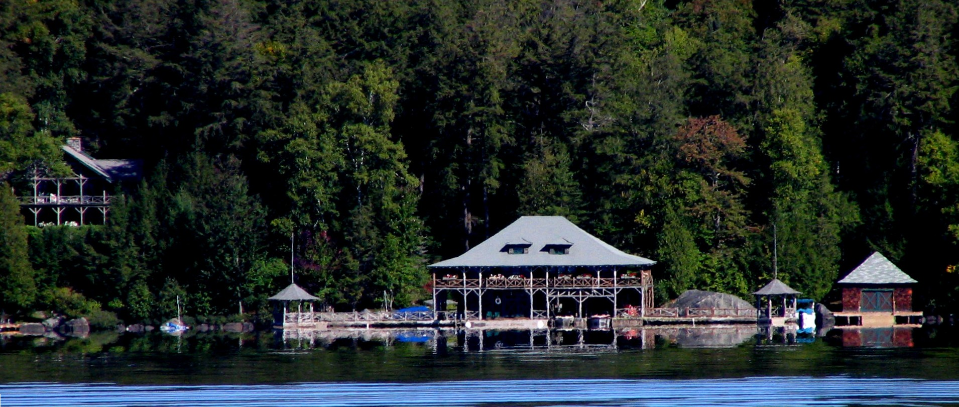 Camp Knollwood, a Great Camp on Lower Saranac Lake in the Adirondacks (New York). Taken by User:Mwanner, 9/17/2007